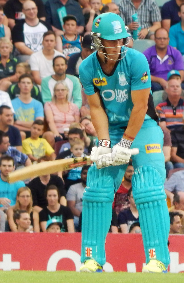 Chris Lynn during Brisbane Heat vs Melbourne Stars 28/12/2014 T20 at the Gabba, Brisbane.